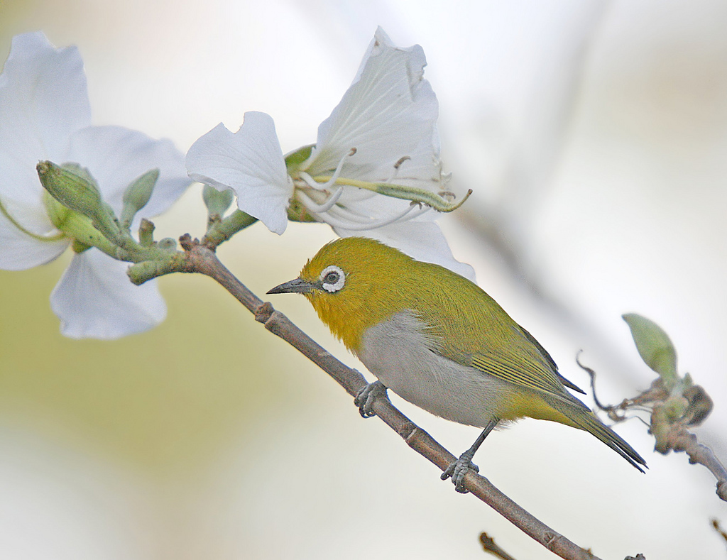 White-eye rests for a second before seeking more nectar from the white flowers in the background.